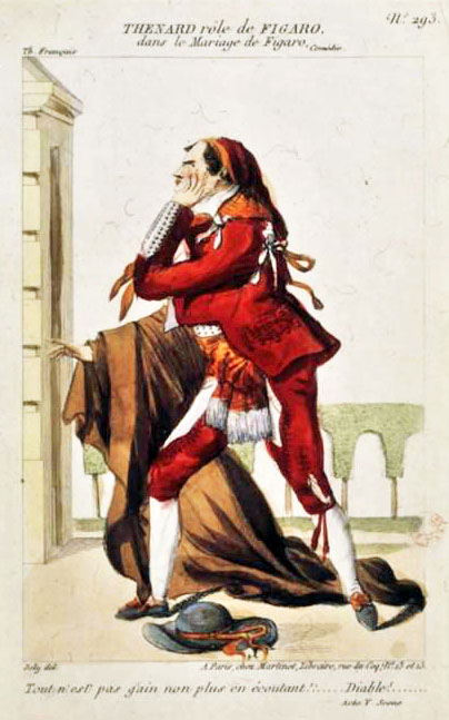 Costume design for Figaro in Le mariage de Figaro, comédie de Beaumarchais